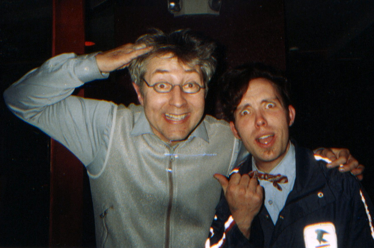 Emo Philips (left) and Danny Norton at the Go Room in Olympia, Washington